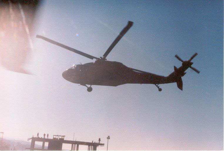 Being extracted from Beirut TOS LZ 1 in UH-60 flown by the 12th Aviation Brigade